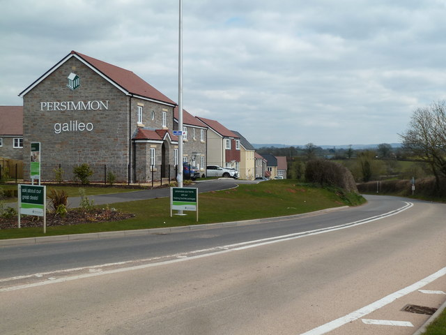 A large new town being built near Exeter Airport.